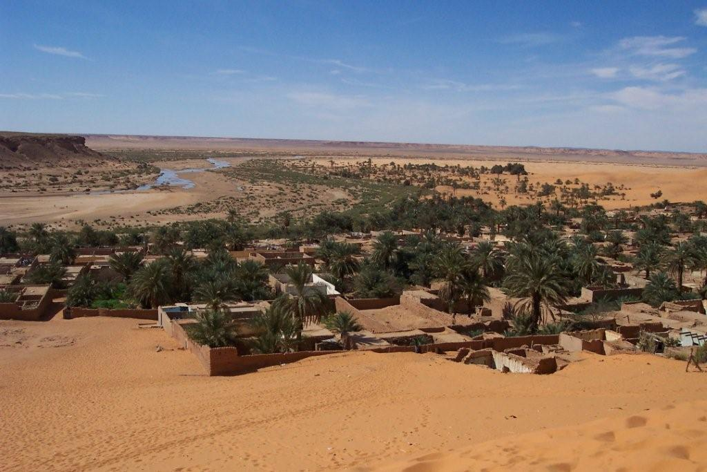 The oasis ksar (Berber village) of Beni Abbes. The site was first inhabited in the 12th century by a tribe from Mauritania. The town today has an old section made up of semi-attached houses, granaries, mosques, baths, ovens, and shops, and a new section with a research center which includes a museum, zoo, and botanical garden. The old section has been largely uninhabited for decades, but enough buildings remain intact to give a good representation of traditional desert architecture. Visit The World Factbook for more information about Algeria.